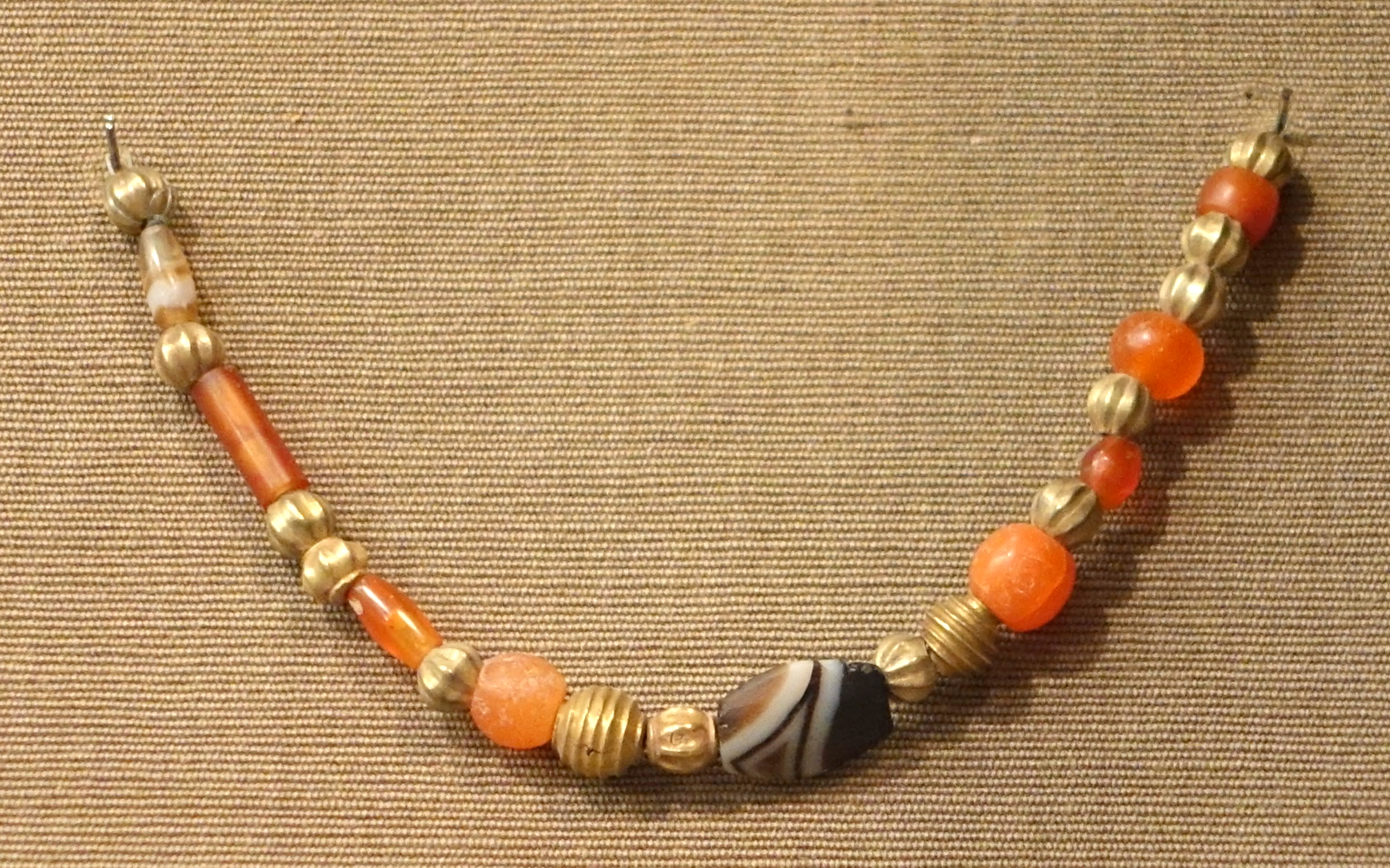 Exhibit in the Oriental Institute Museum, University of Chicago, Chicago, Illinois, USA. This work is old enough so that it is in the public domain.